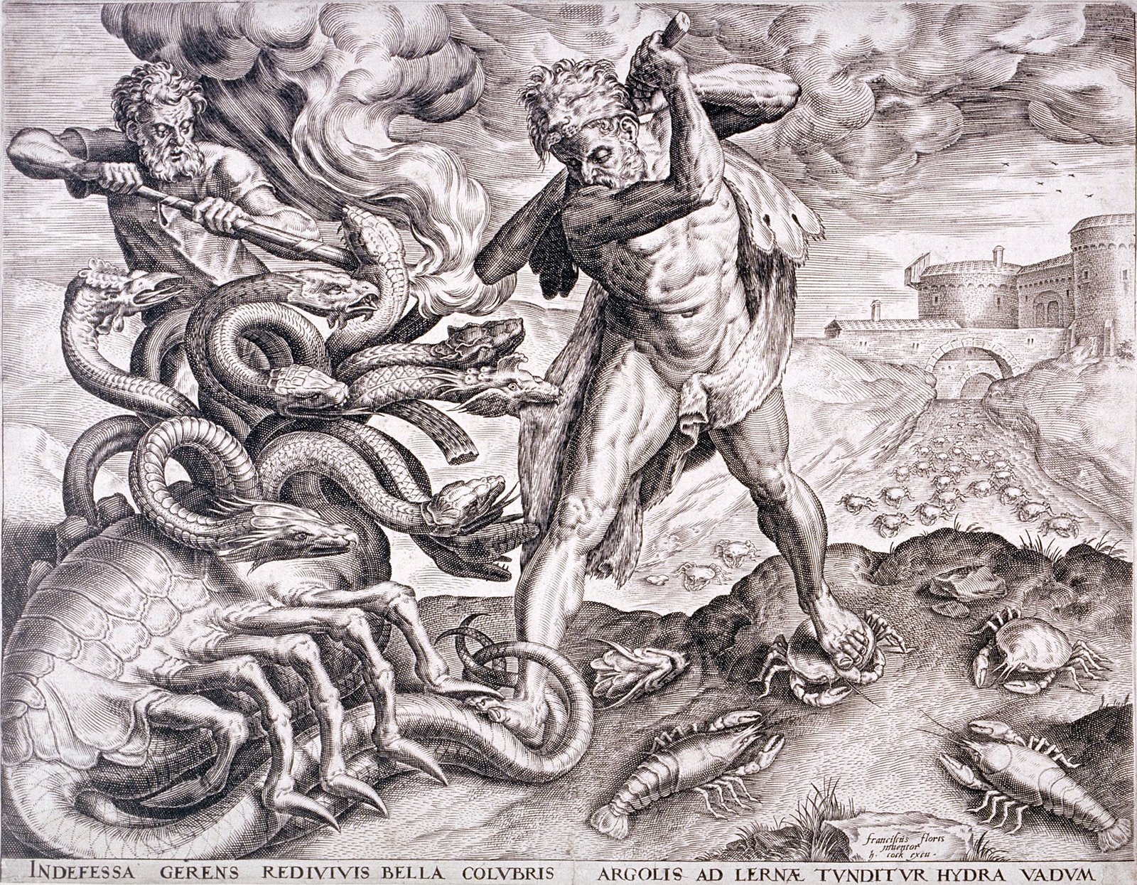 Engraving about the second labour of Heracles: slay the Lernaean Hydra